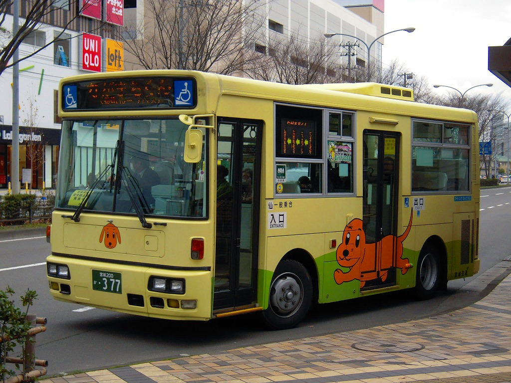 Miyagi kotsu Nissan Diesel KK-RN252CSN(Nagamachi-kun)